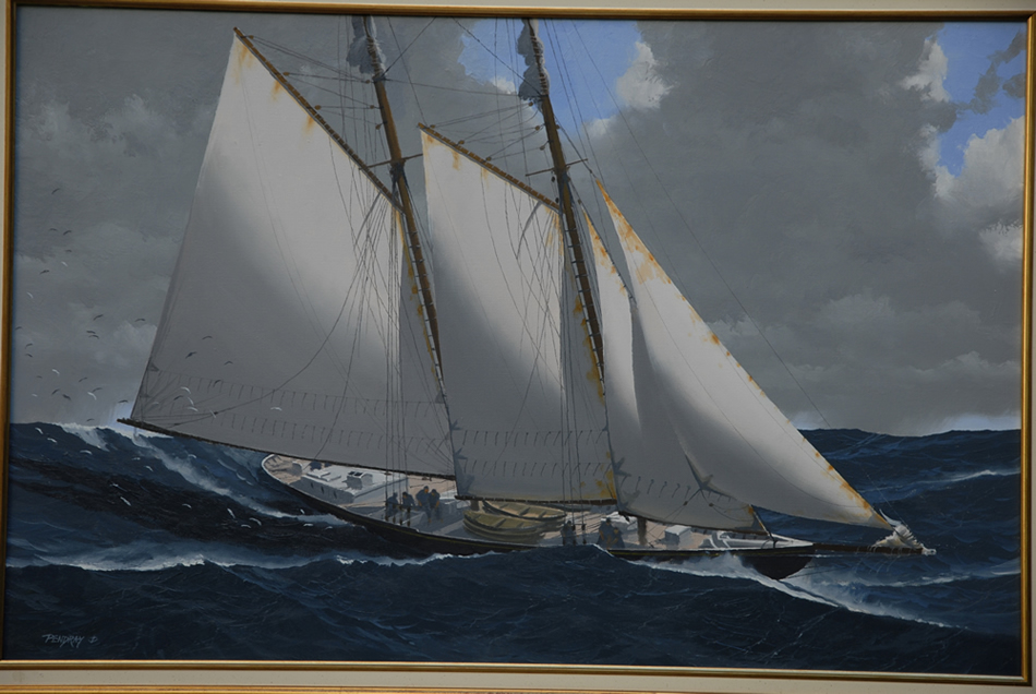 Goelette, John Pendray's painting.